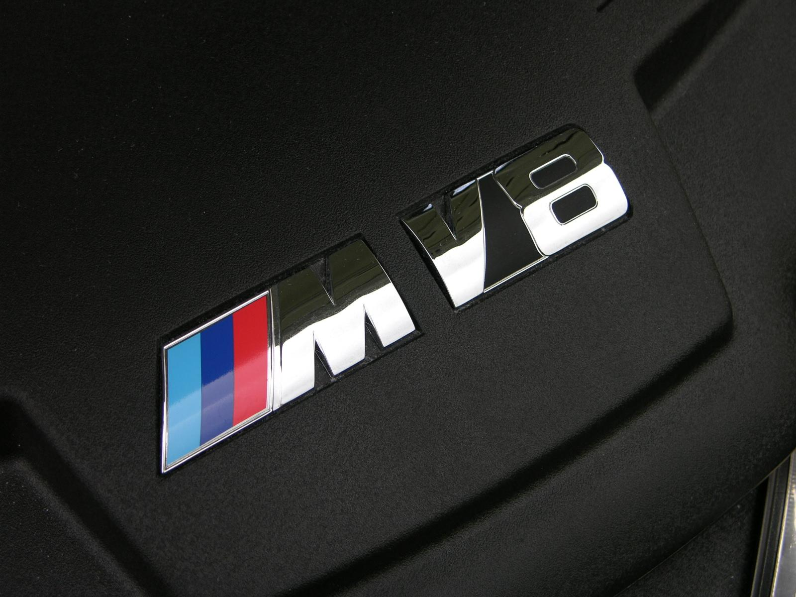 2008 BMW M3 Convertible